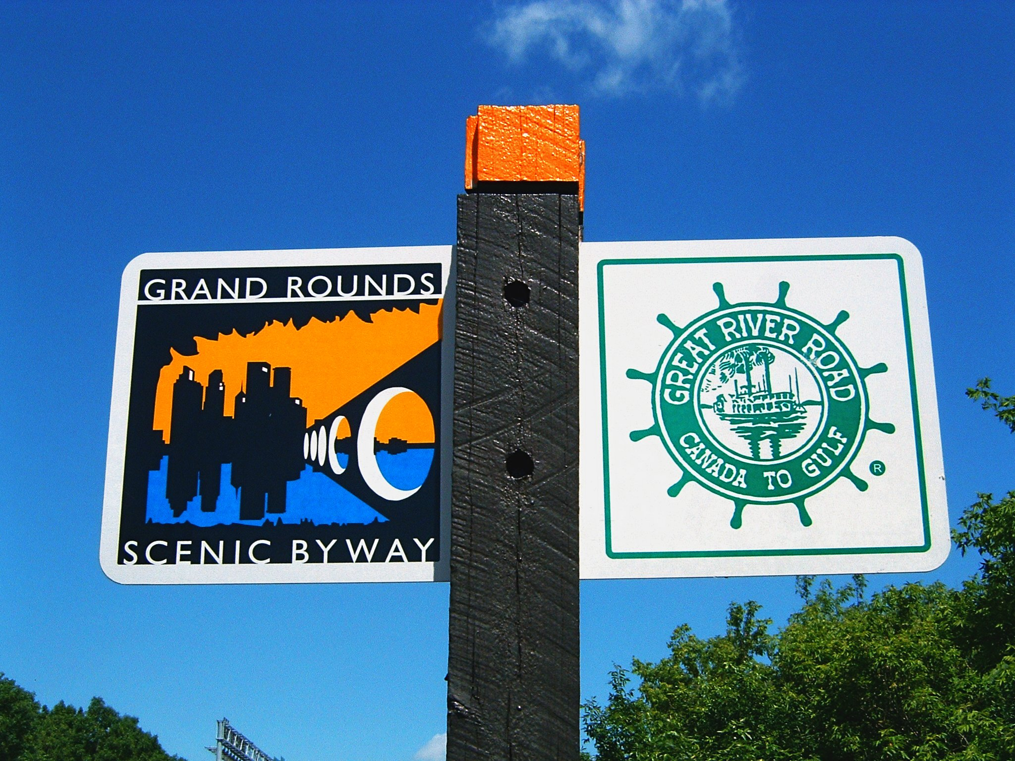 Grand Rounds Scenic Byway, Minneapolis, Minnesotadscf0055-contrast